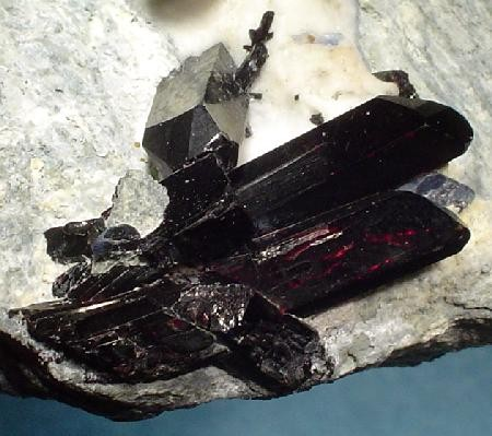 Neptunite, Benitoite Locality: Dallas Gem Mine (Benitoite Mine; Benitoite Gem Mine; Gem Mine), Dallas Gem Mine area, San Benito River headwaters area, New Idria District, Diablo Range, San Benito County, California, USA (Locality at ) Size: 10.4 x 6.3 x 4.8 cm. A fine specimen with clustered and discrete neptunite and benitoite crystals on a natrolite-covered matrix from the famous Dallas Gem Mine. All of the neptunite crystals have hints of red fire and the largest crystal, at 3.1 cm, is doubly terminated. The partially gemmy, sharp benitoite crystals reach 1.1 cm. Ex. Richard Hauck Collection.